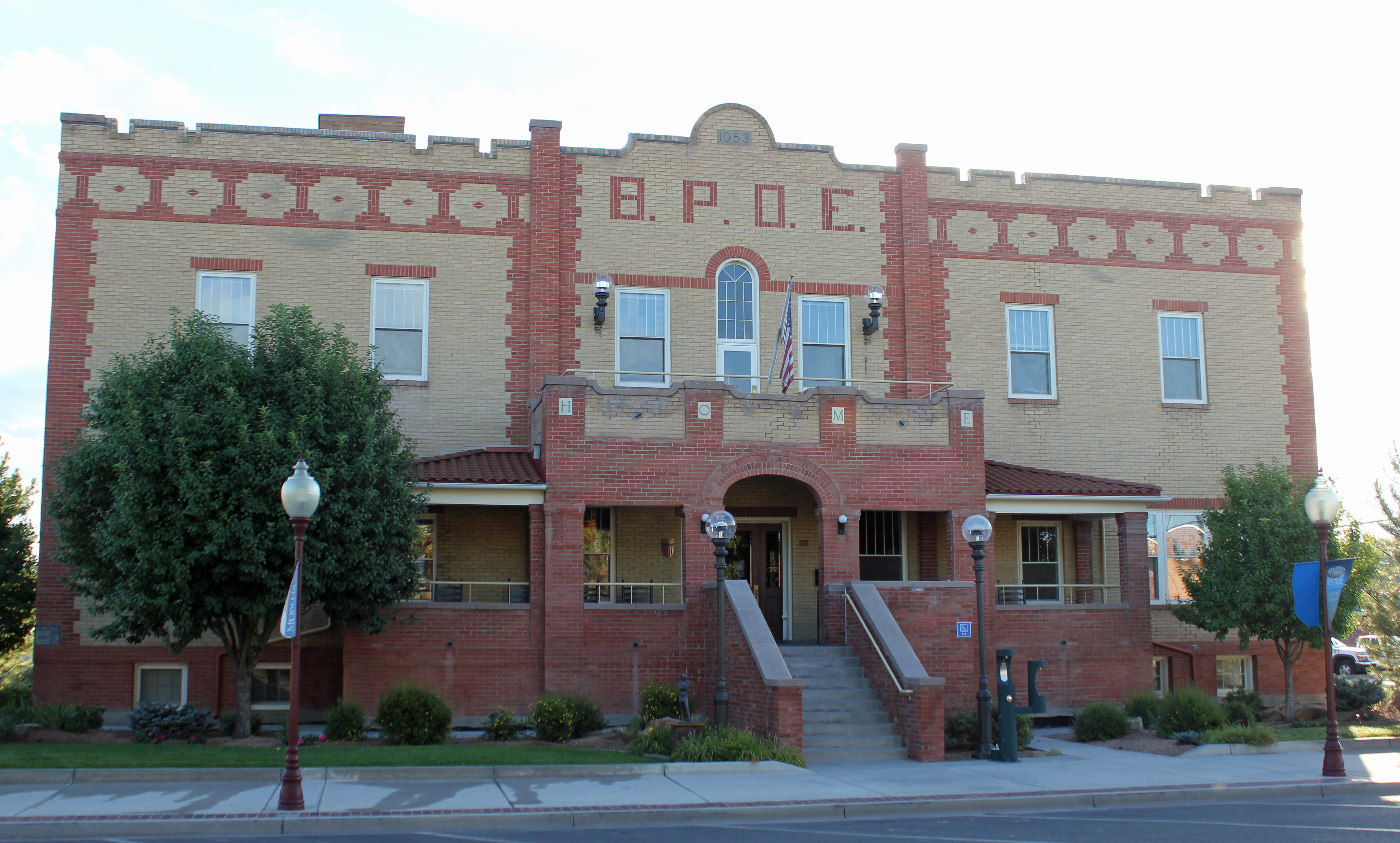 The Benevolent and Protective Order of Elks Lodge building, located at 107 Cascade Avenue in Montrose, Colorado. The property is listed on the National Register of Historic Places.